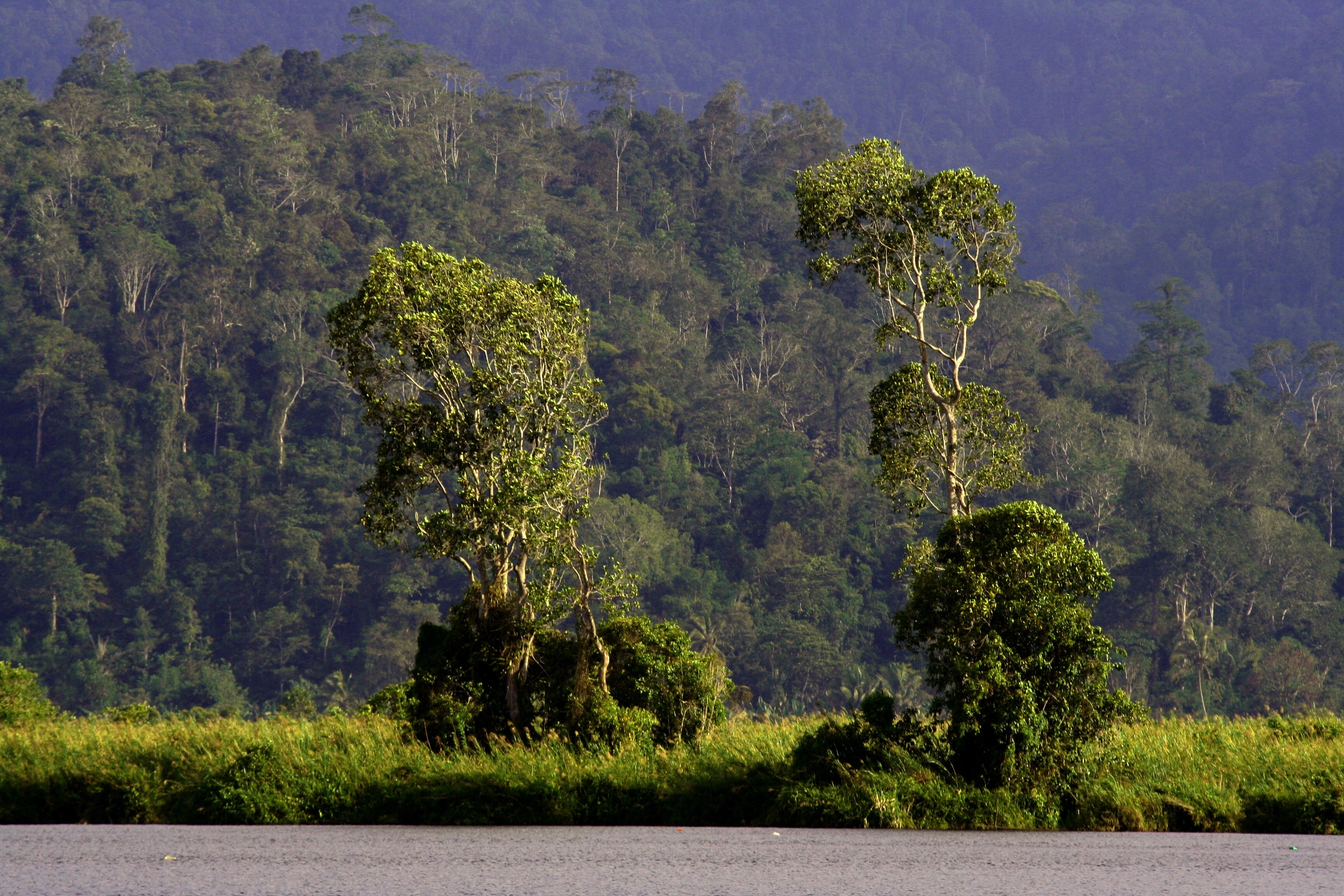 Isolated trees at the edge of Danau Lindu, in Lore Lindu National Park, Central Sulawesi (April 2006).